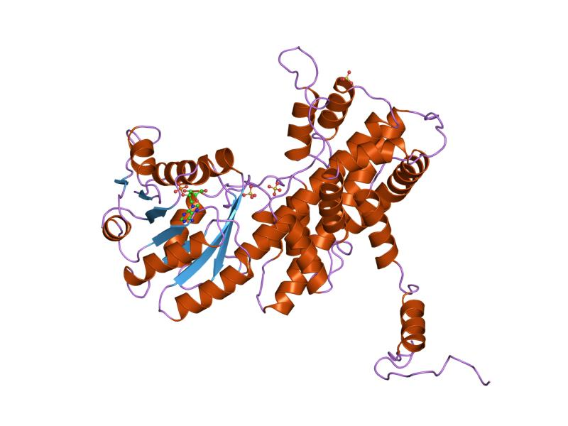 Cartoon representation of the molecular structure of protein registered with 1pgq code.